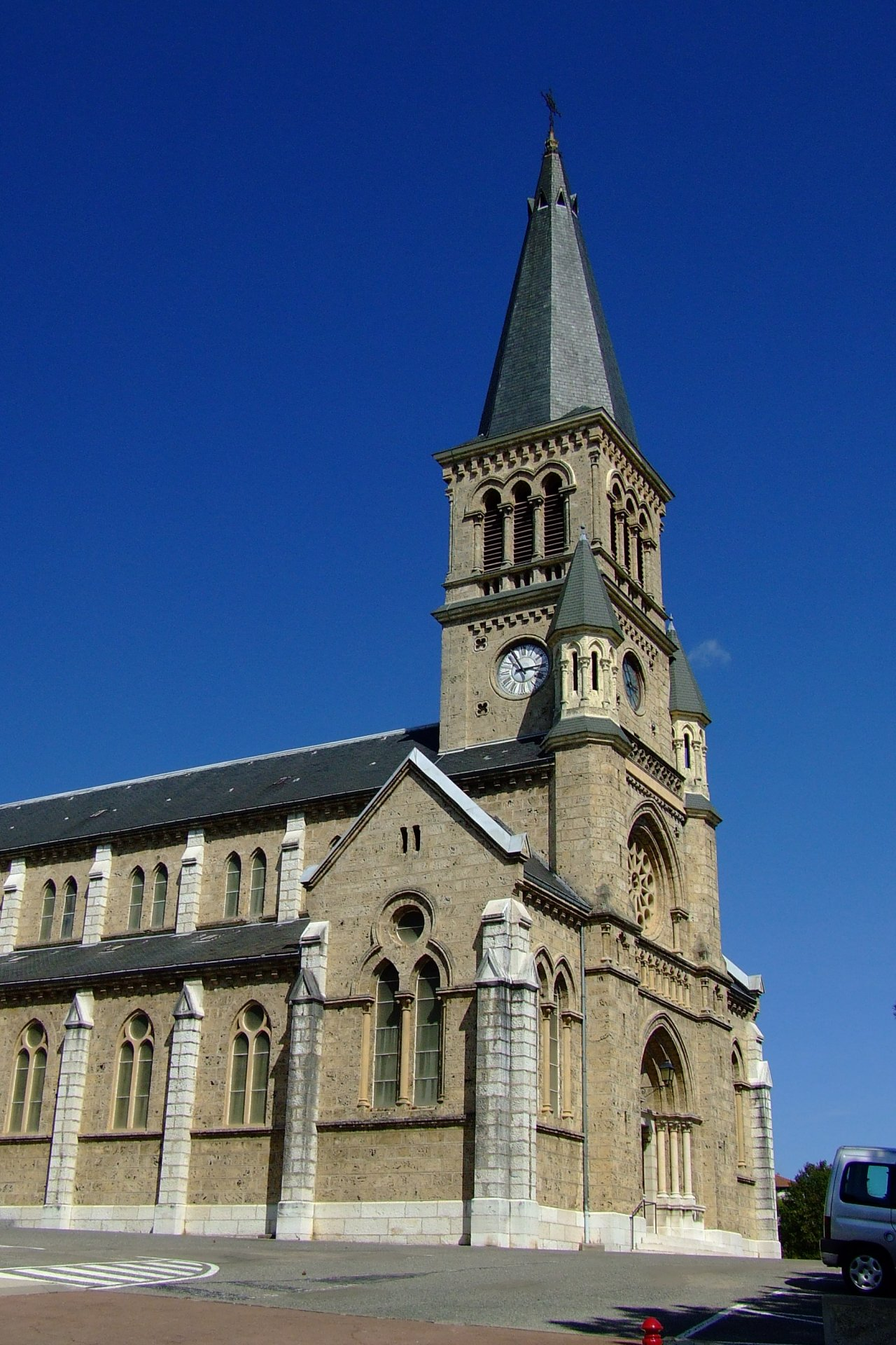 The church in Rives (Isere). La Eglise en Rives (Isere). Die Kirche in Rives (Isere).